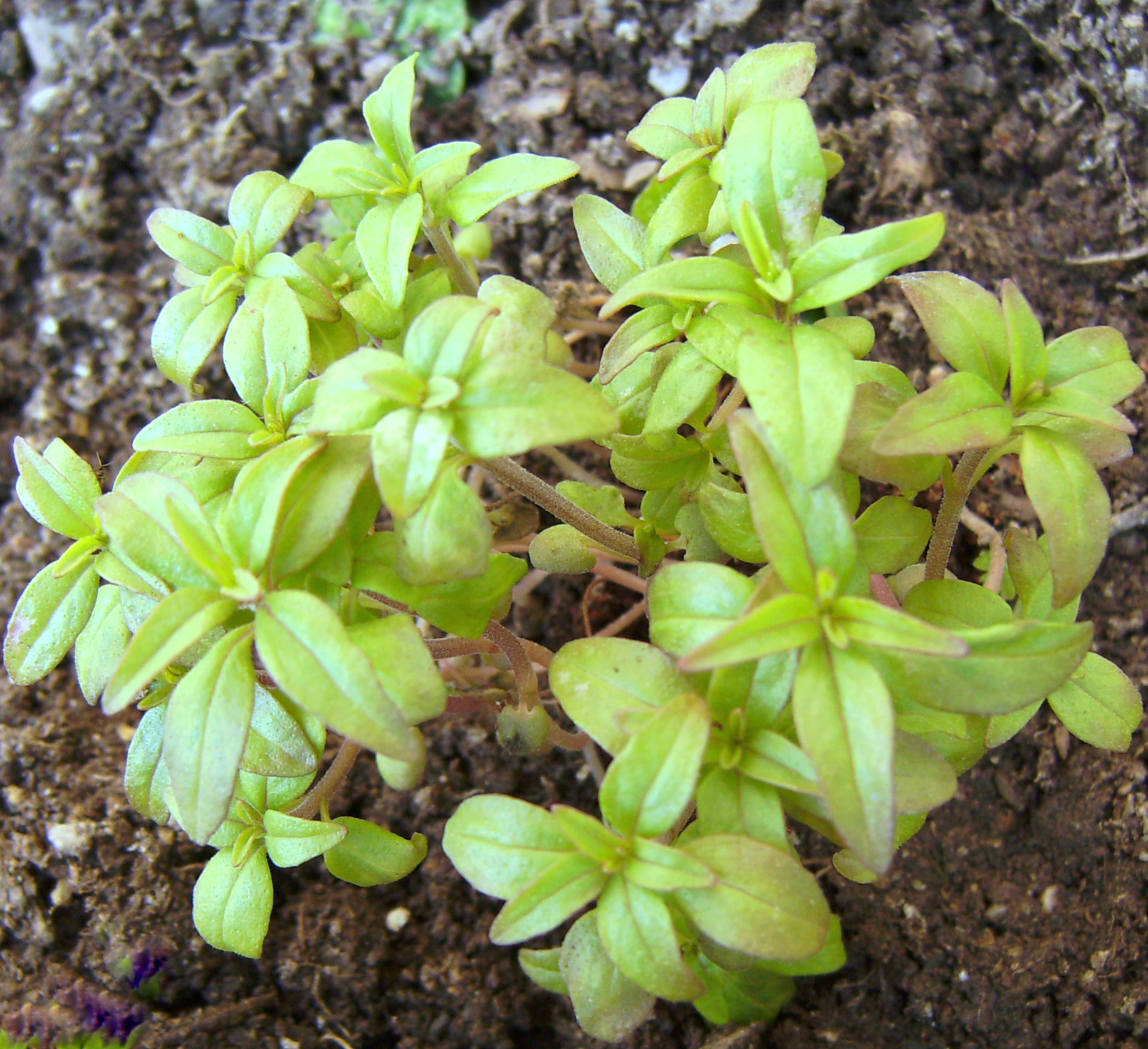 Summer savory young plant, Satureja hortensis, Castelltallat, Catalonia